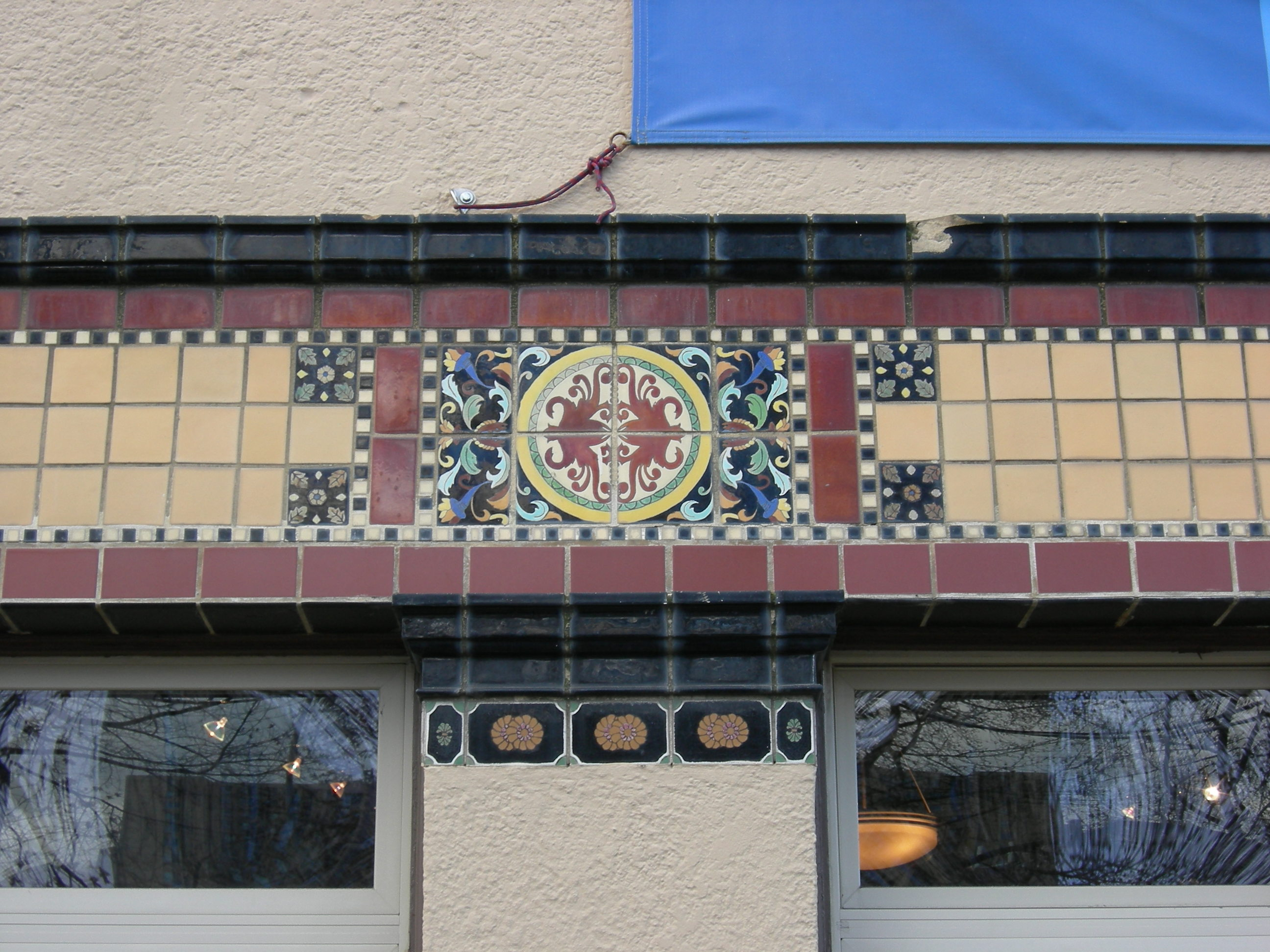 Tilework detail, 117 Yale Ave N, Seattle, Washington, now Feathered Friends (outdoor equipment store). The building has quite a history, which is gone into at some length at Summary for 117 Yale AVE / Parcel ID 6849700075, Seattle Department of Neighborhoods. Originally (1927) it was the Rodgers Tile Company warehouse and shop. It is one of the rare examples of a Spanish eclectic warehouse/storefront building in Seattle. It was later the home and studio of artists Nicolai Kuvshinoff and Bertha Horne Kuvshinoff. Nicolai Kuvshinoff "appears to have painted" religious murals in the nearby St. Spiridon Orthodox Cathedral, where his father Reverend Vasily Kuvshinoff officiated. As an artist, Nicolai Kuvshinoff had some international renown. Other tenants have included Kelly Floor Coverings, the Hall Scott Motor Car Company, the Matt Talbot Center and the New Hope Center, and the 911 Contemporary Arts Center.